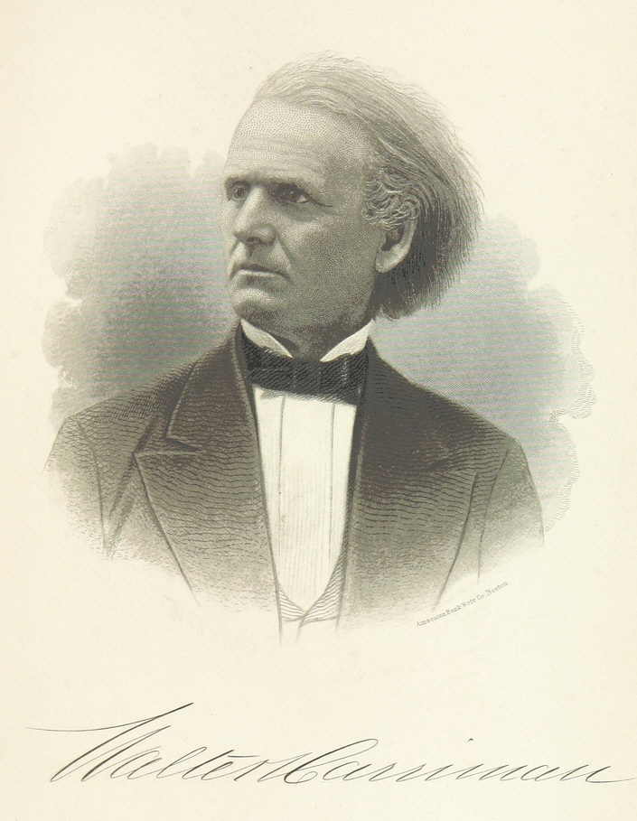 HARRIMAN, Walter